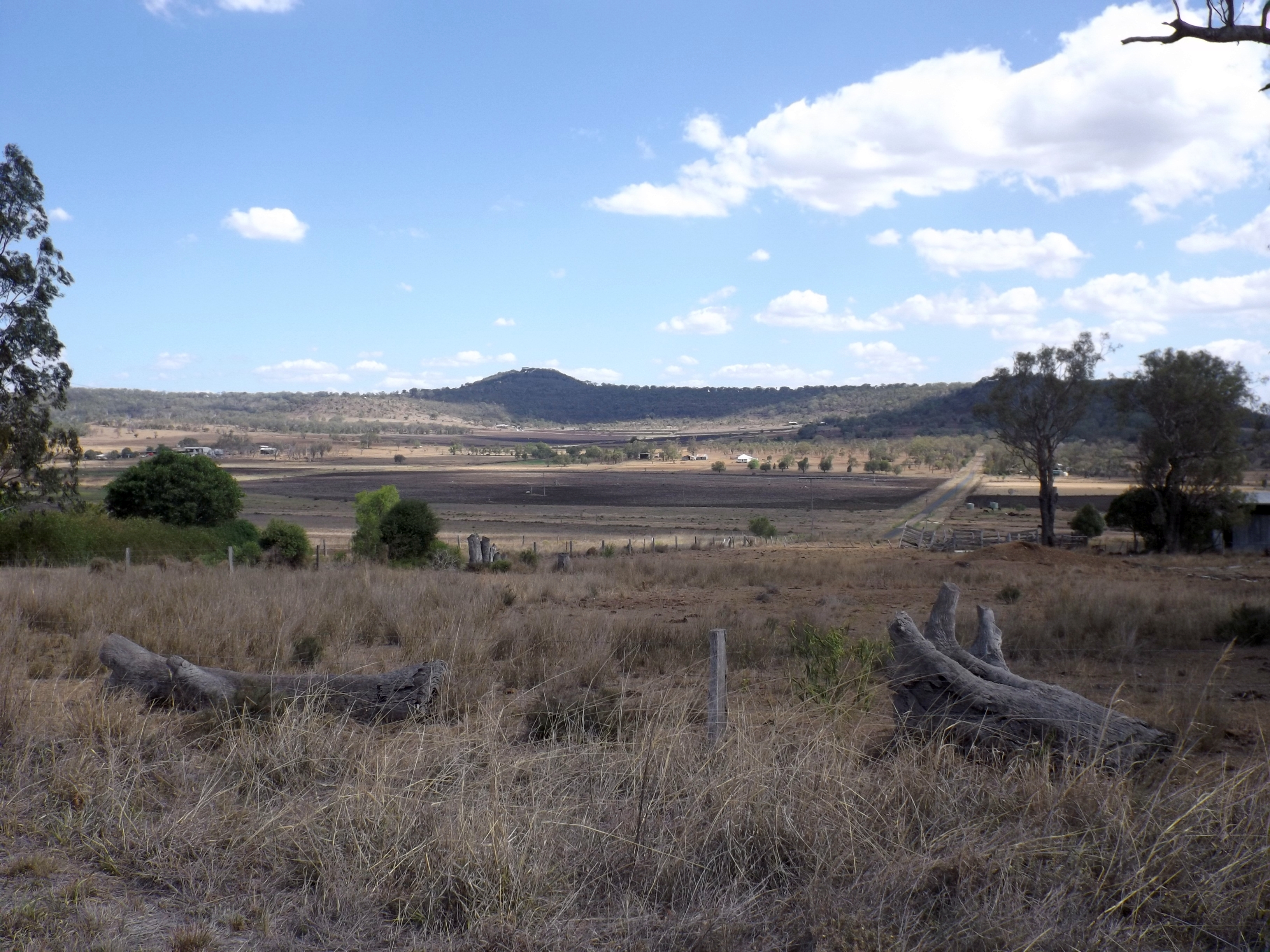 Photo of farms at Gowrie Little Plains, Toowoomba Region, Queensland, Australia.